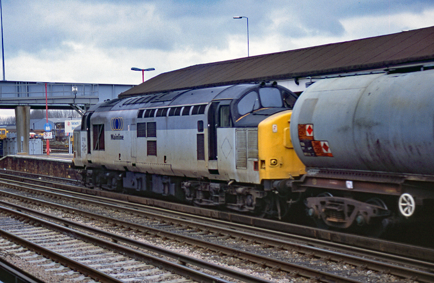 37 891 in Trainload Freight triple grey livery with Mainline branding at Eastleigh. Numbering history: D6866, 37166 37891 Scanned from a Fujichrome 35mm slide.